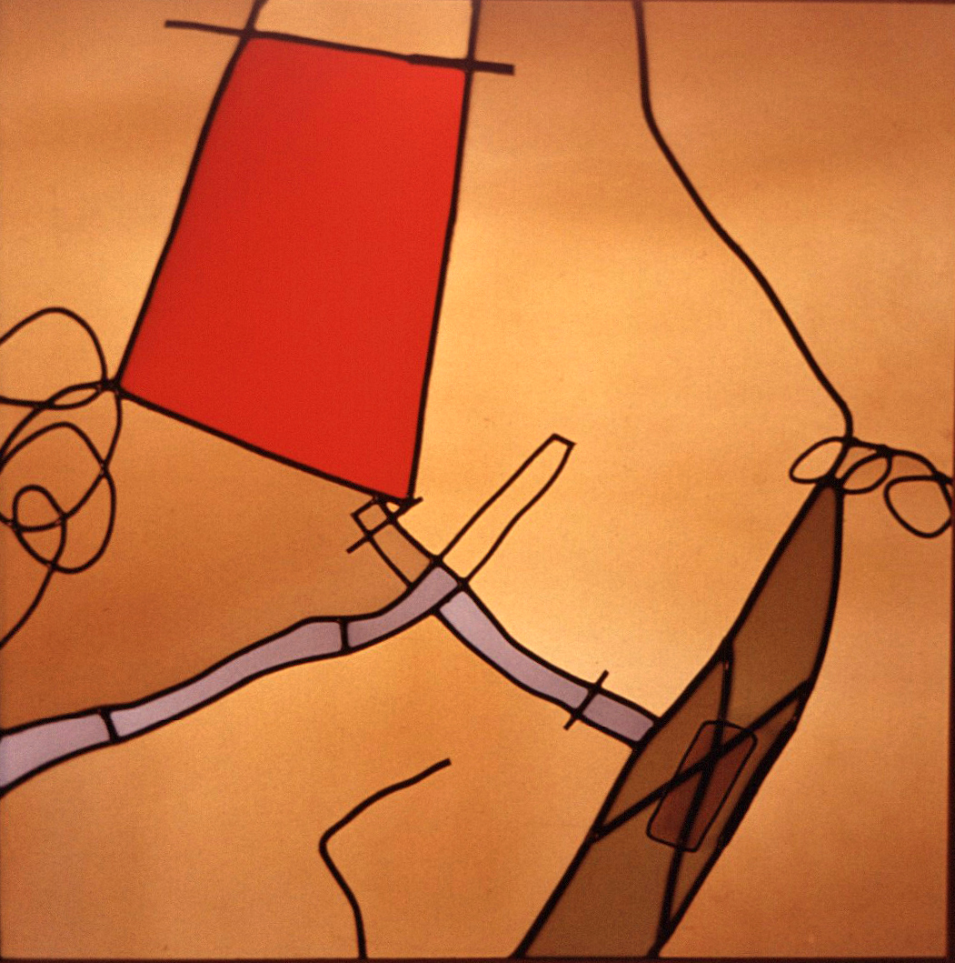 “Composition XXVIII” — by Robert Kehlmann (1976). Opaque leaded glass panel with glass overlay. Museum für Zeitgenössische Glasmalerei, Langen, Hesse, Germany. Photo: Kehlmann Studio Archive, date 1976.